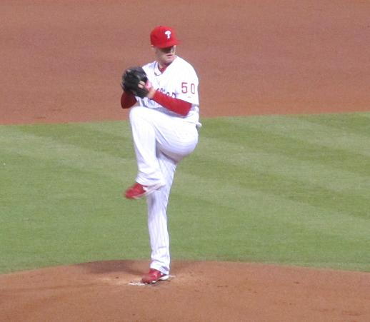 Tyler Cloyd pitching on 2012 09 27 in Philadelphia